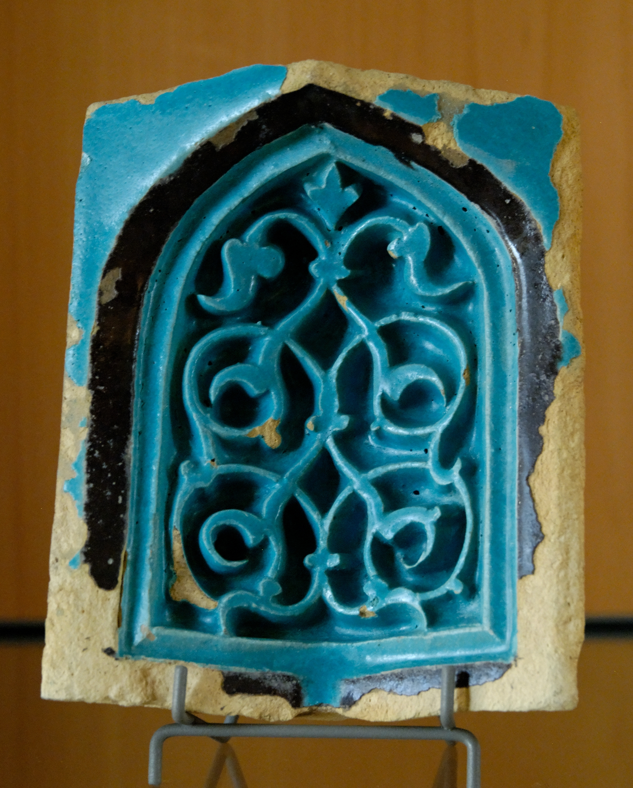 Tile from a muqarna squinch. Earthenware with moulded decoration under opaque turquoise glaze, Timurid art, 1st half of the 15th century. From the Shah-i Zinda in Samarkand.